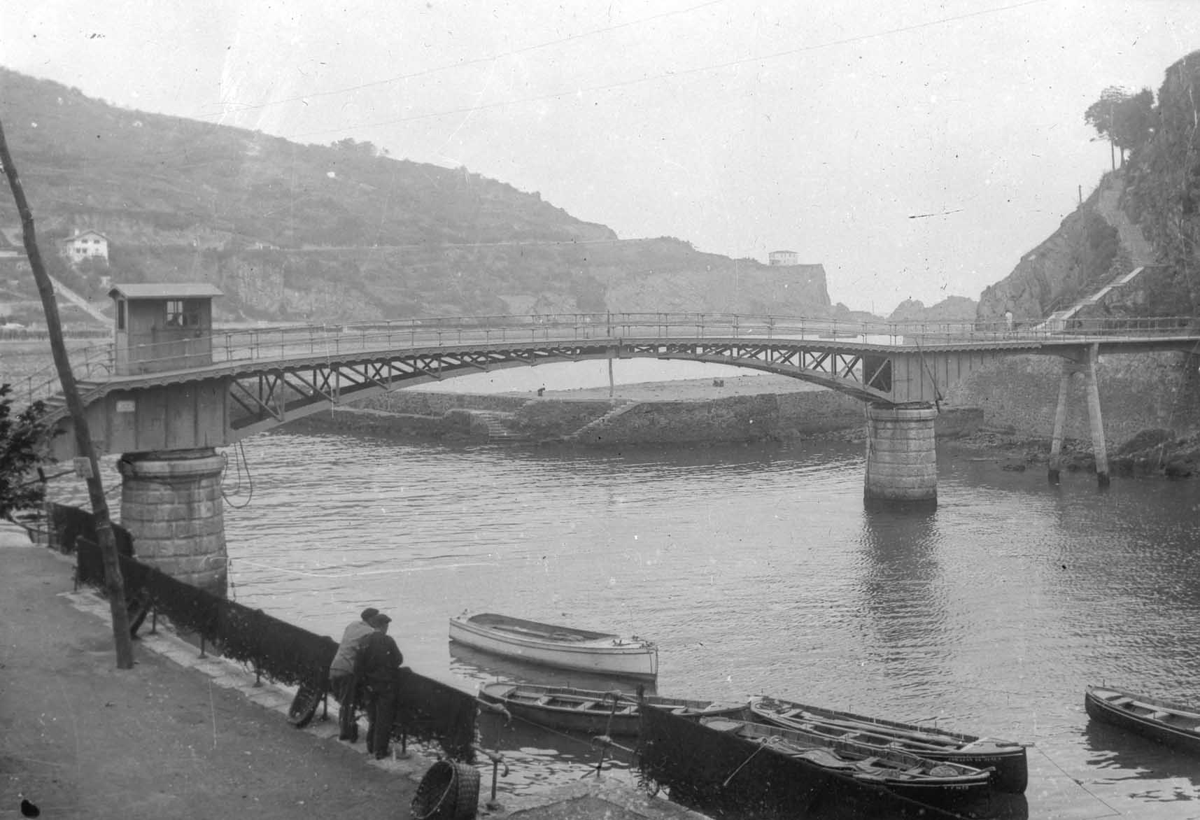 Rotary bridge in Ondarroa. Build in 1931.